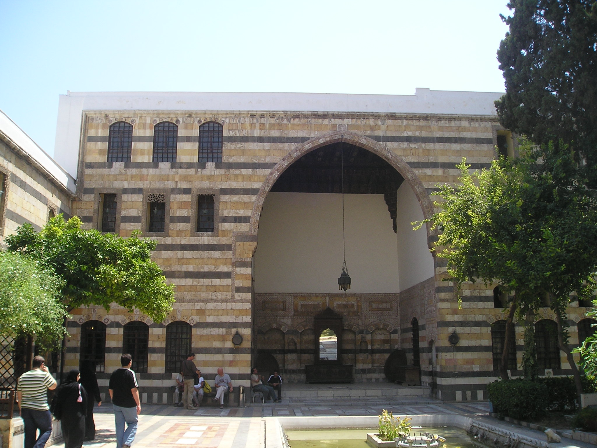 Azem Palace, southern façade of the larger courtyard. In Damascus, Syria